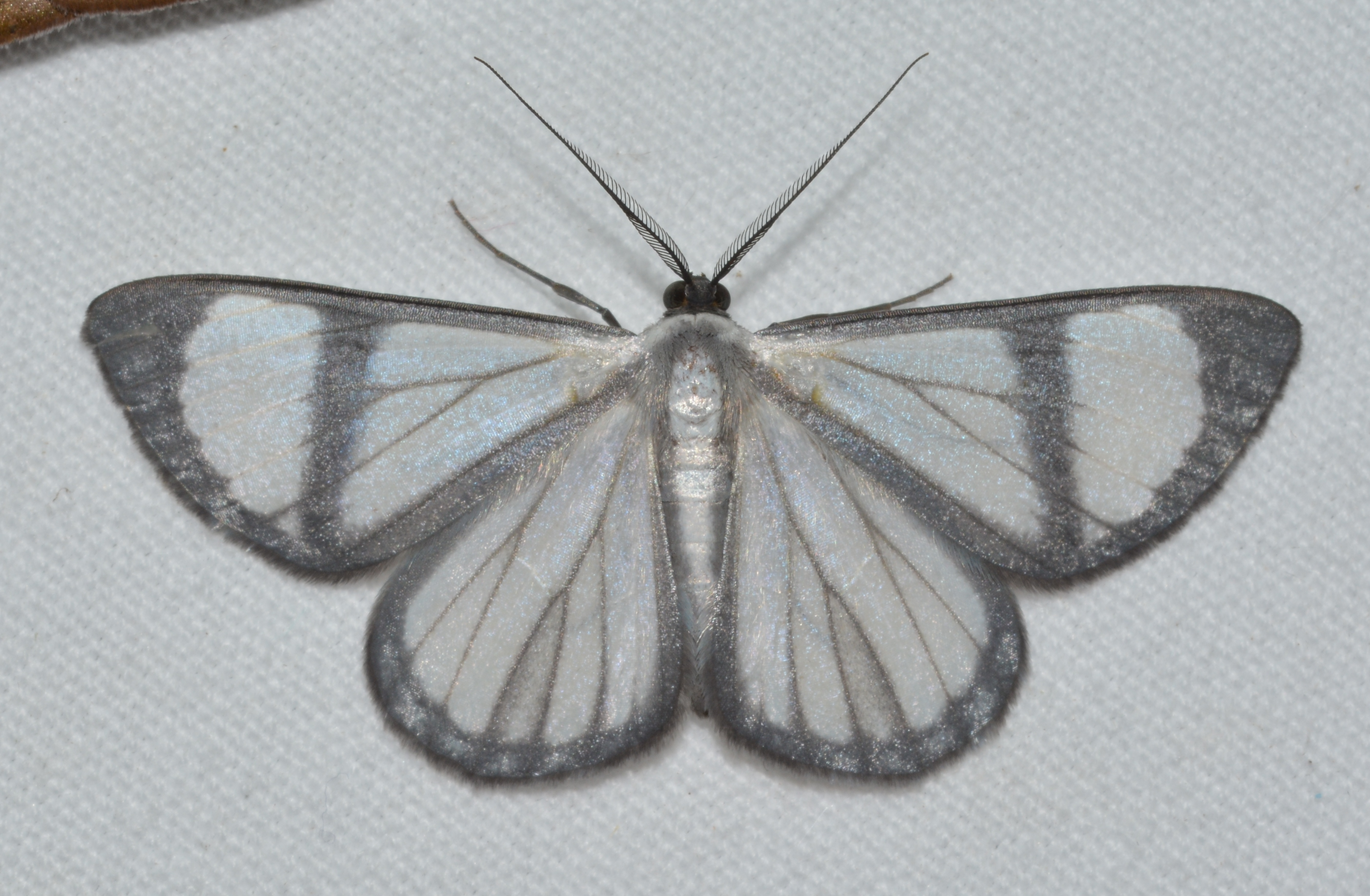 Costa Rica Rancho Naturalista Photos taken between 2/8/16 and 2/14/16